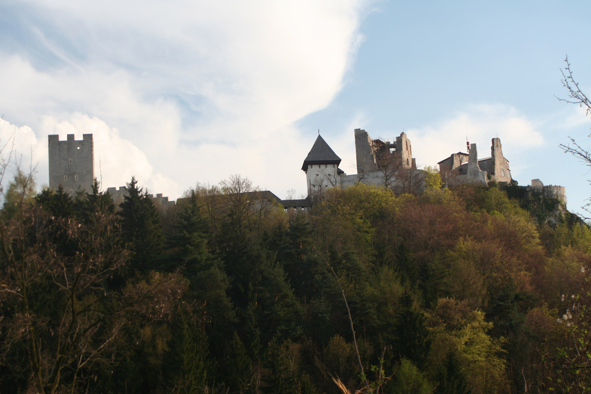 The Celje Upper Castle. A view towards south.